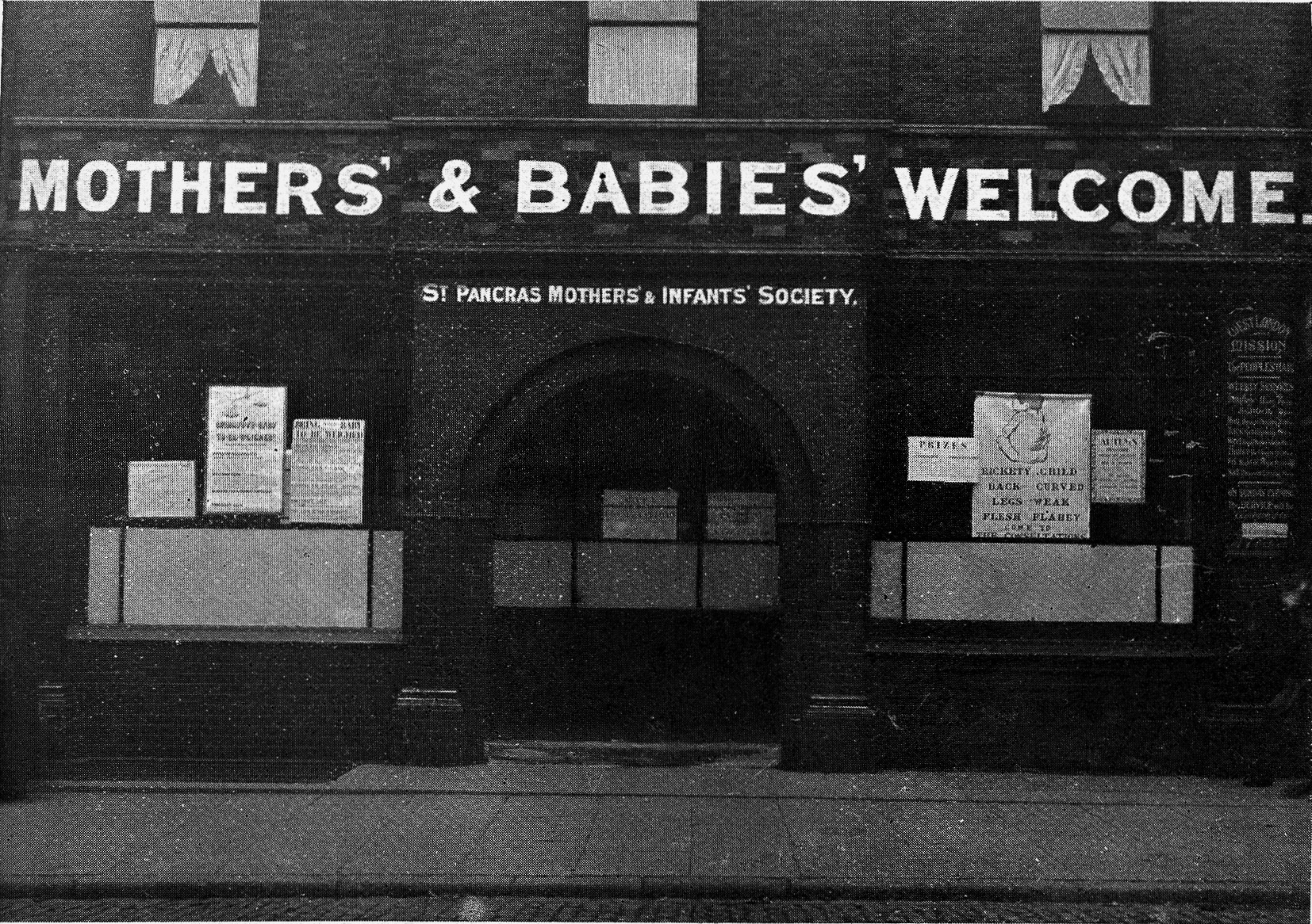 Mothers and Babies welcome General Collections Keywords: Bunting, Evelyn M., et al.